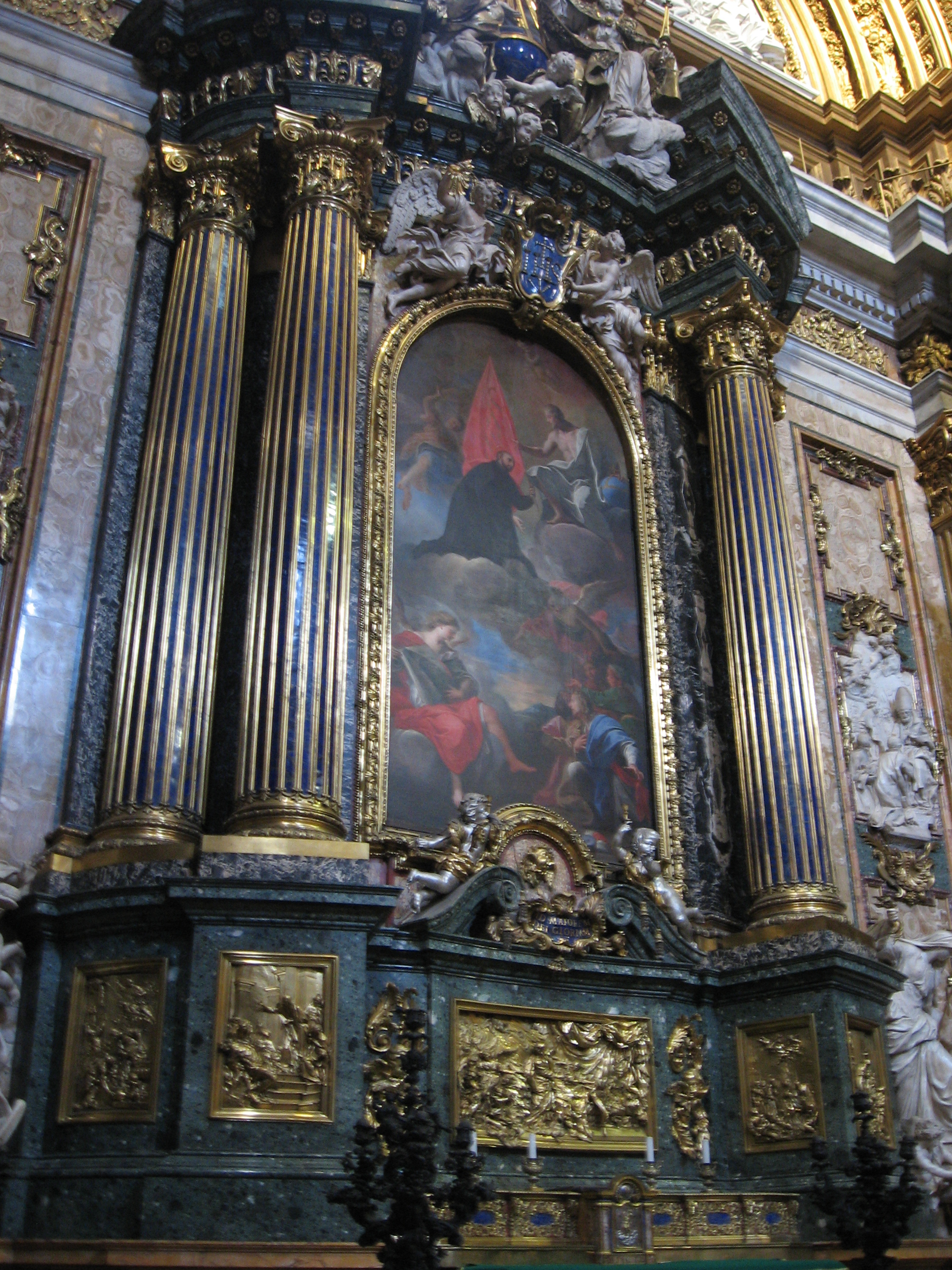 Altar dedicate to S. Ignazio di Loyola in "Chiesa del Gesù", Rome